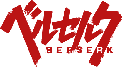 Berserk logo